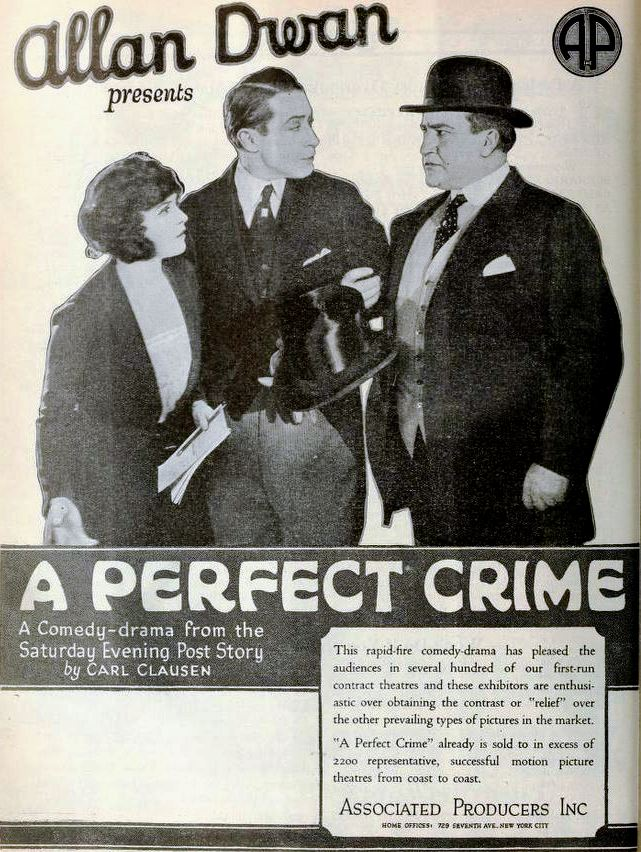 Advertisement for the American film A Perfect Crime (1921) with Jacqueline Logan, Monte Blue, and Stanton Heck, on page 10 of the March 20, 1921 issue of Wid's Daily.